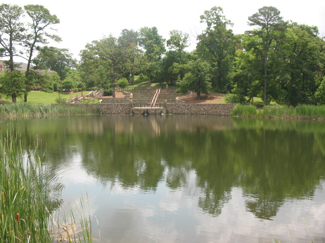 Urban Enviornmental Park, Birmingham-Southern College